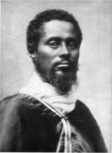 Portrait of ras Makonnen